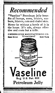 1922 newspaper ad for Vaseline.